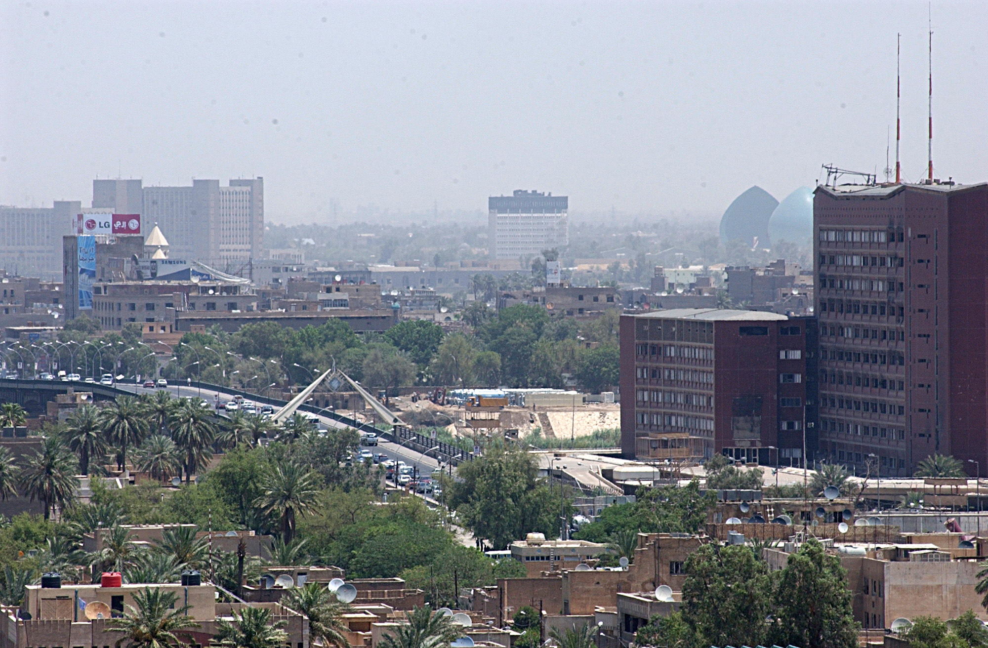 Al Rashid Hotel, Baghdad, Iraq